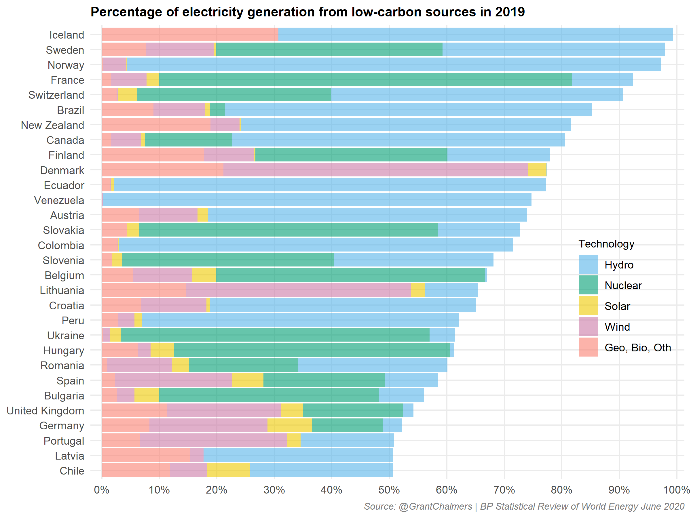 Percentage of electricity generation from low-carbon sources in 2019. Low-carbon sources are hydro, nuclear, solar, wind, geothermal, biomass.